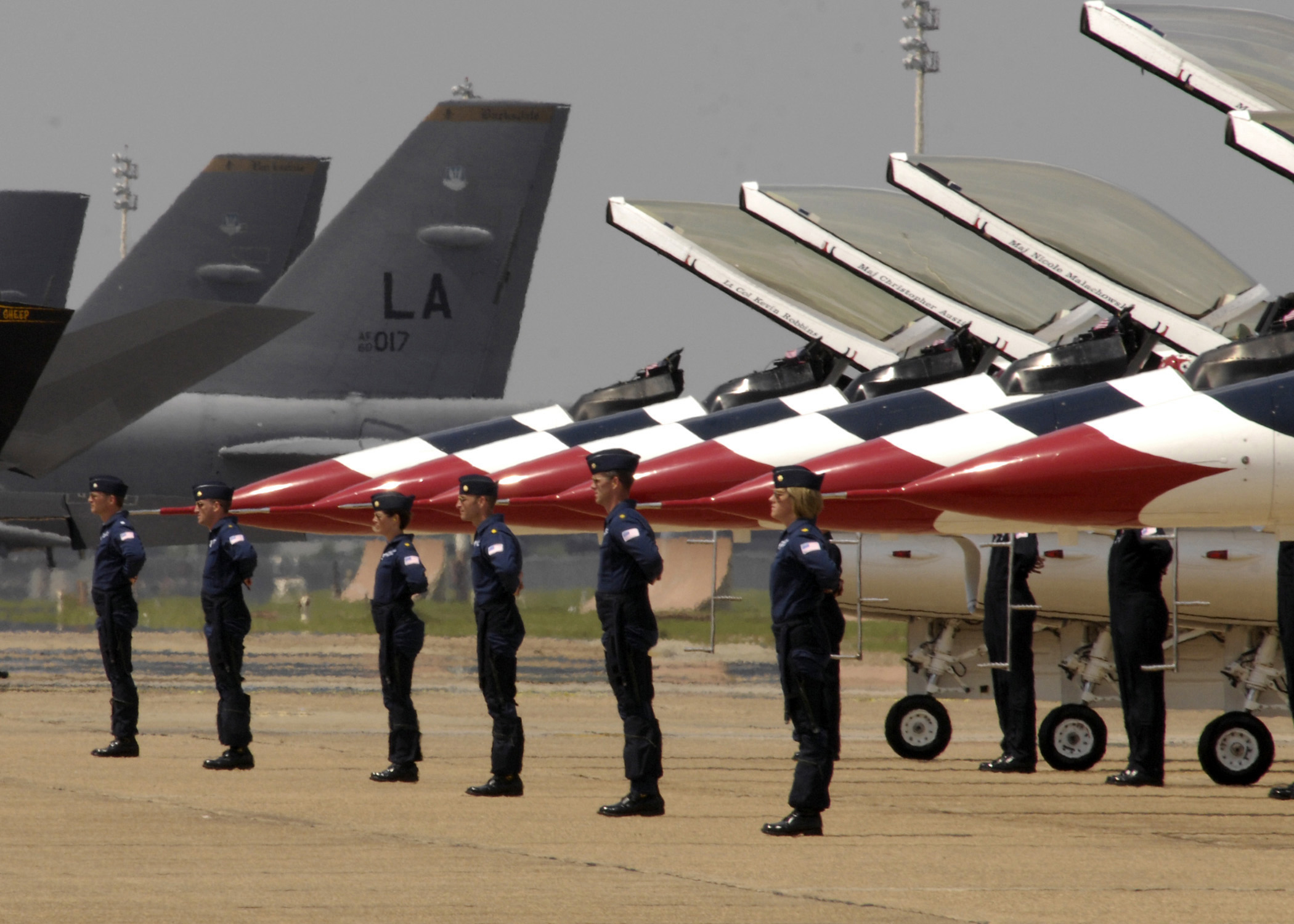 U.S. Air Force Thunderbird pilots stand next to their aircraft before taking off from Barksdale Air Force Base in Louisiana April 22, 2007. The Thunderbirds were the final act of the 2007 Defenders of Liberty Air Show.